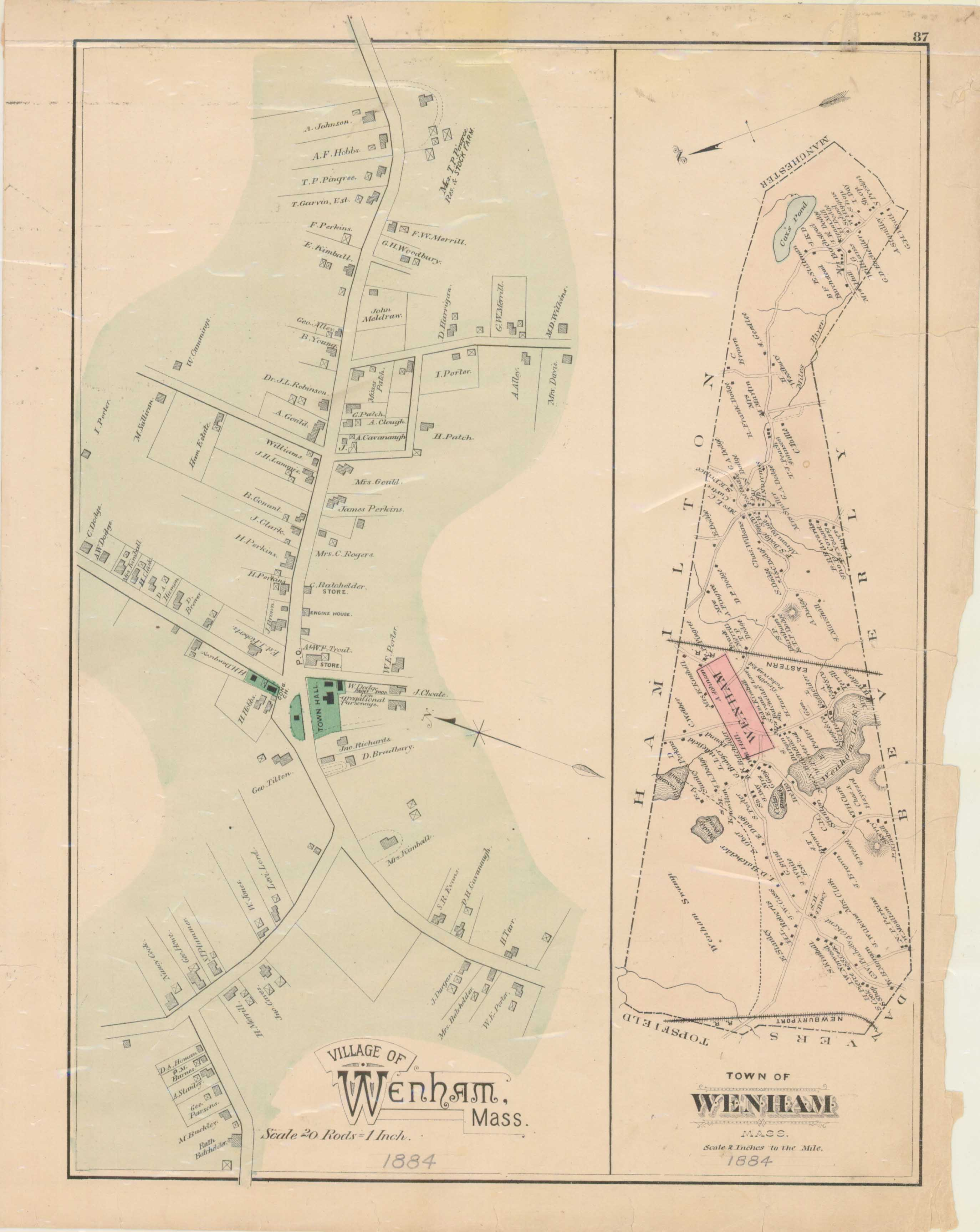 1884 map of Wenham, Massachusetts